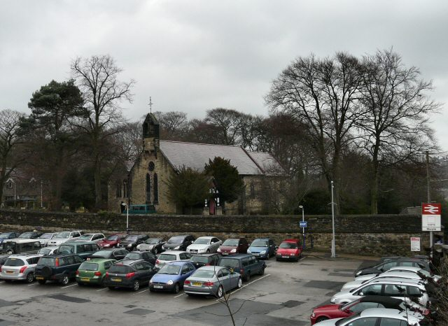 St Martin's, Marple Viewed from across the carpark of Marple Station, St Martin's is said to be a "Victorian gem" and an outstanding example of the work of the Arts and Craft Movement. It was built in 1870 with land and money donated by Ann and Maria Hudson, followers of the Oxford Movement who lived in Brabyn's Hall in nearby Brabyn's Park. The architect was John Dando Sedding, a leading ecclesiastical architect of the era.